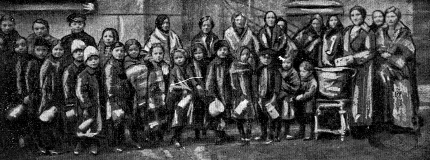 Main Care Council - free feeding of children and women in Warsaw (1917)